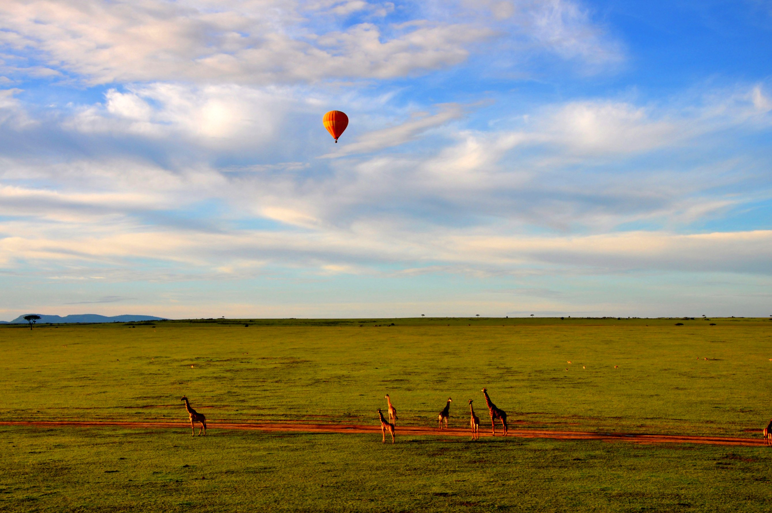 This picture was taken during a Hot Air Balloon Safari early morning in Maasai Mara, Kenya